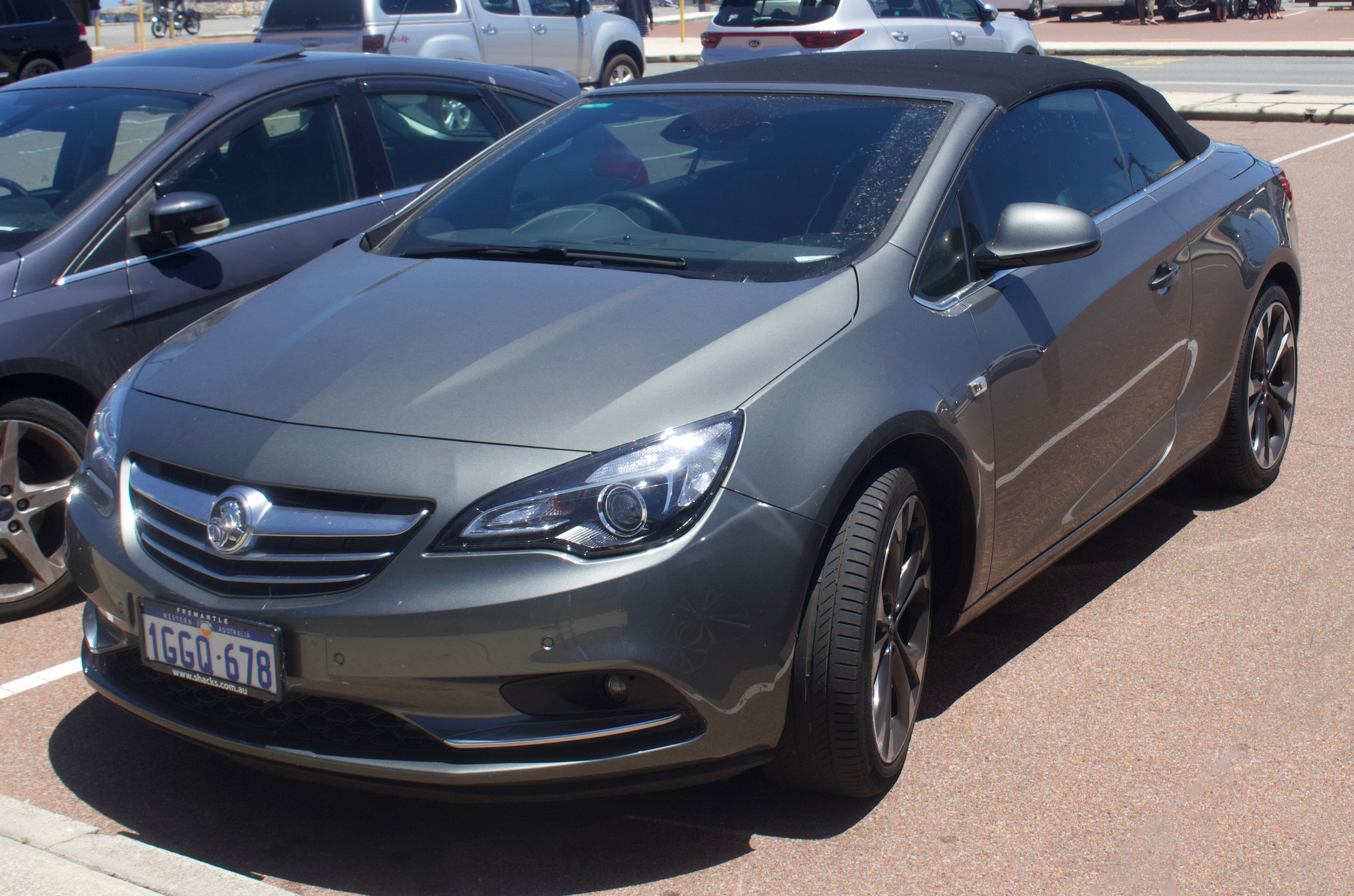 2017 Holden Cascada (CJ MY17) convertible. Photographed in Fremantle, Western Australia, Australia.